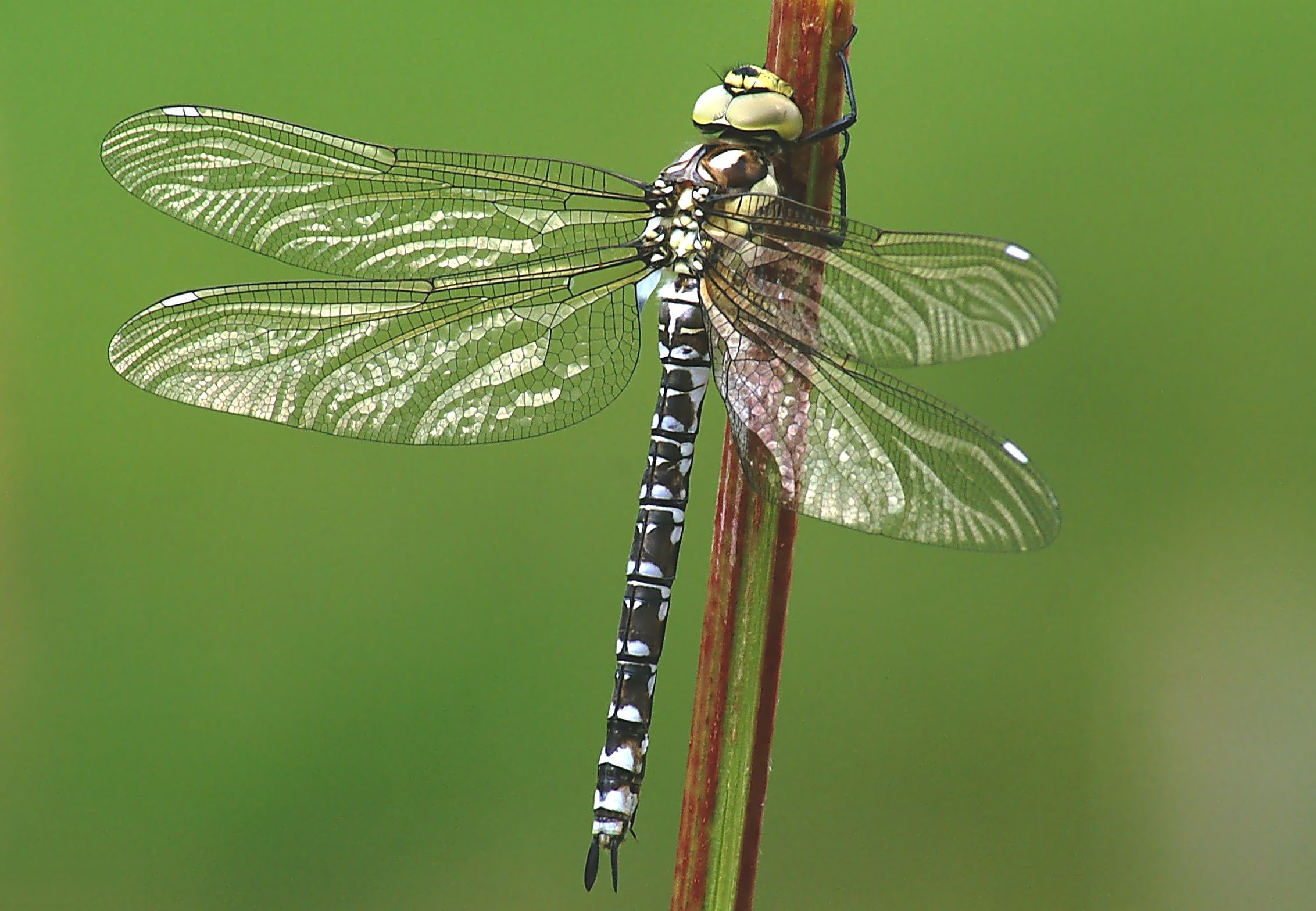 Southern Hawker (Aeshna cyanea).